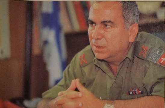 Depicted person: Joshua Shemer – researcher from Israel